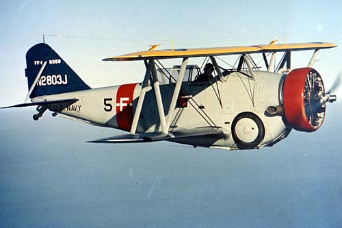 Photo of a preserved Grumman FF-1 fighter. Original caption: "First flown in 1931, the Grumman FF-1 (affectionately known as "Fifi )" was noteworthy for its innovative design characteristics that marked a great step forward in aircraft design - first fighter with retractable landing gear; an enclosed canopy for both cockpits; and, an all metal, stressed skin fuselage."